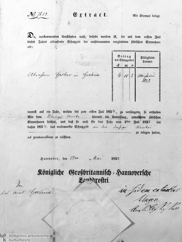 Certificate Confirming Payment of Protection Money for a Jewish Resident (1833). The system of “protected Jews” dated from early modern times and allowed some Jews to obtain better legal status in return for paying protection money [Schutzgeld]. Above all, authorities used this system to prevent poorer Jews from settling in their territory. Although the French Revolution brought Jewish emancipation to Germany, the payment of protection money in the Kingdom of Hanover in 1833, as evidenced here, shows that even after 1815 the old legal discrimination continued or was reinstated; the Revolution of 1848-49 would not lead to definitive equality either.